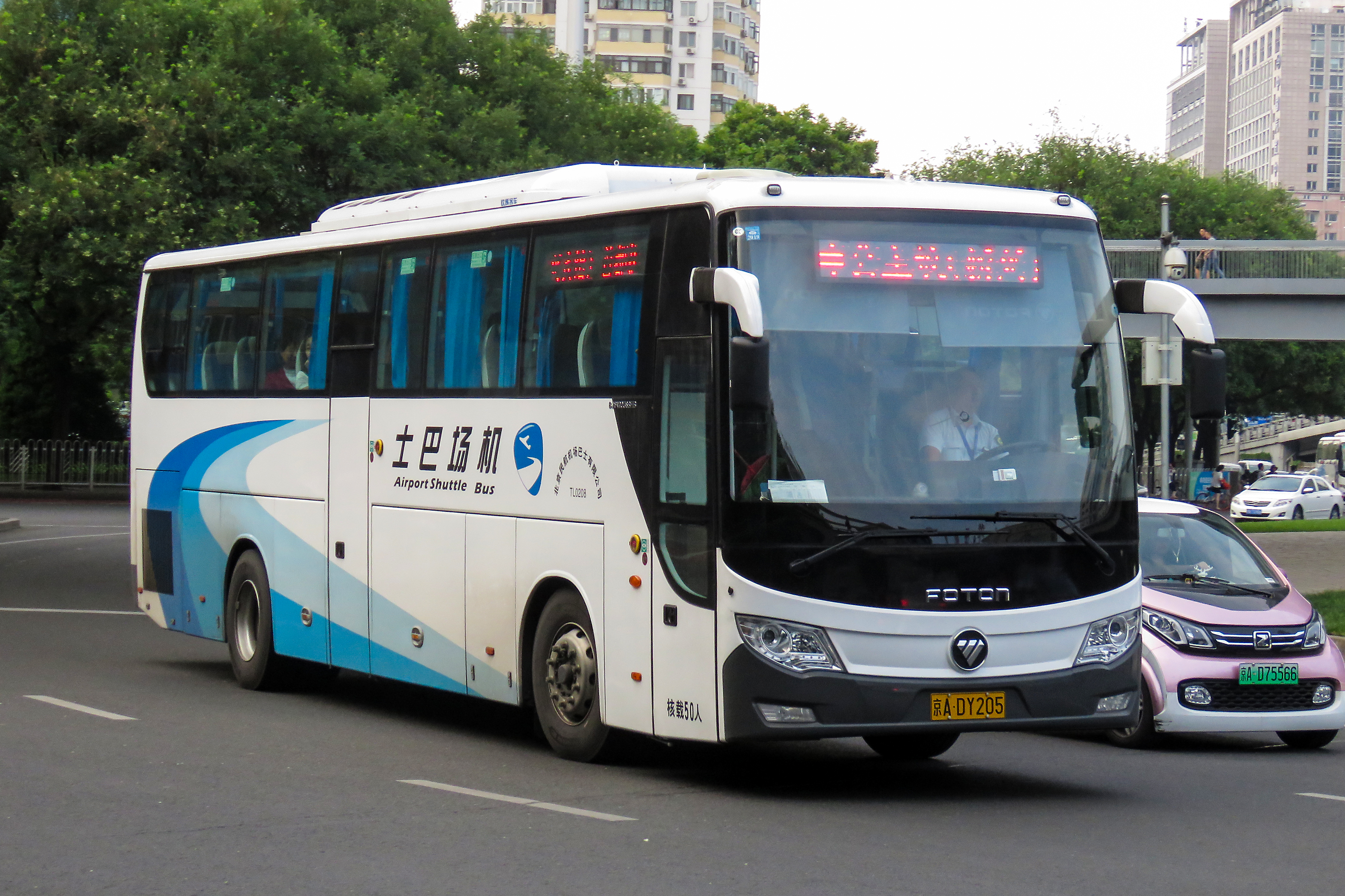 Airport bus to Gongzhufen - why on the side road?